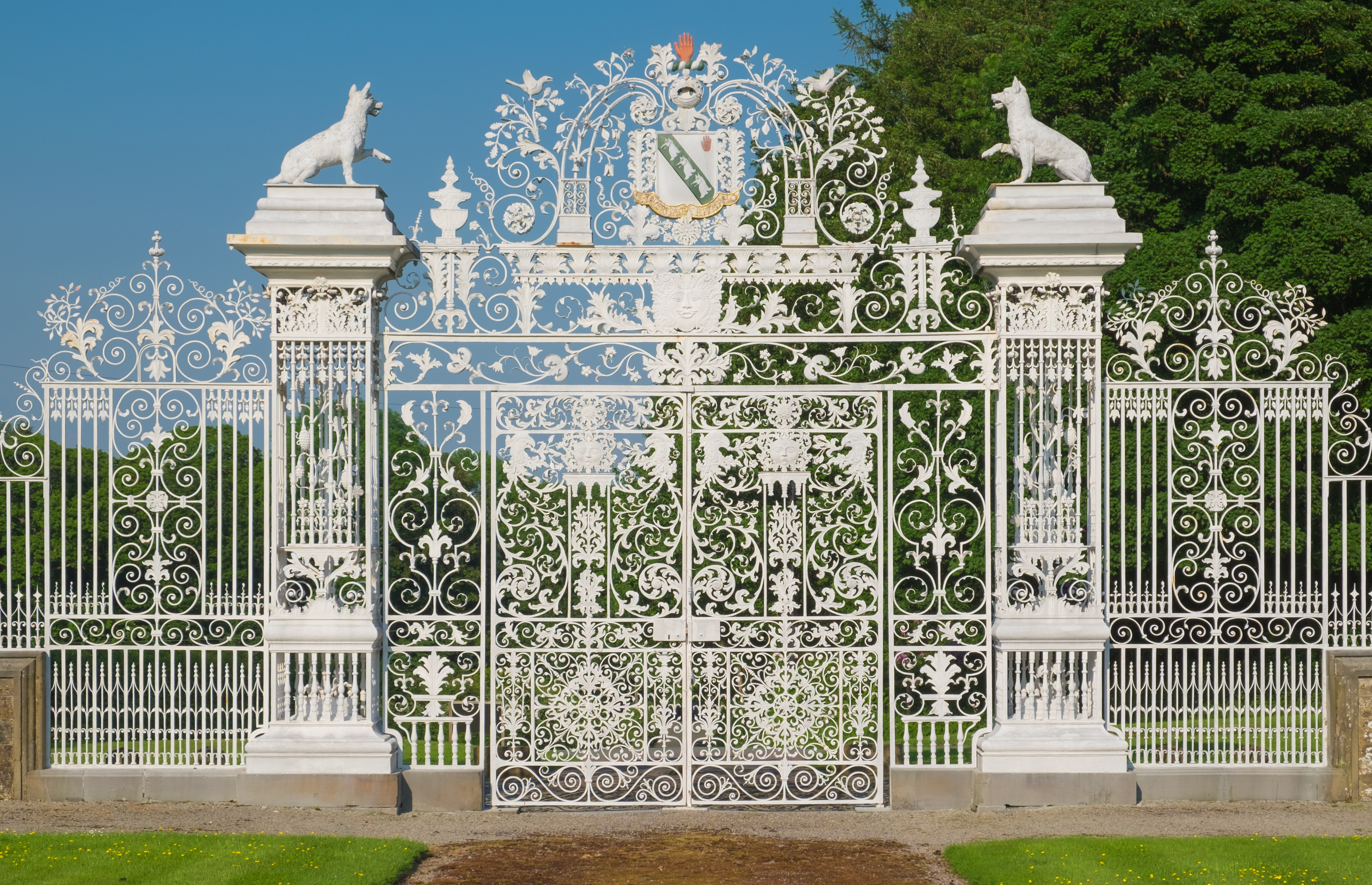 The gates at Chirk Castle. These early 18th century gates are a grade I listed building in Wales.